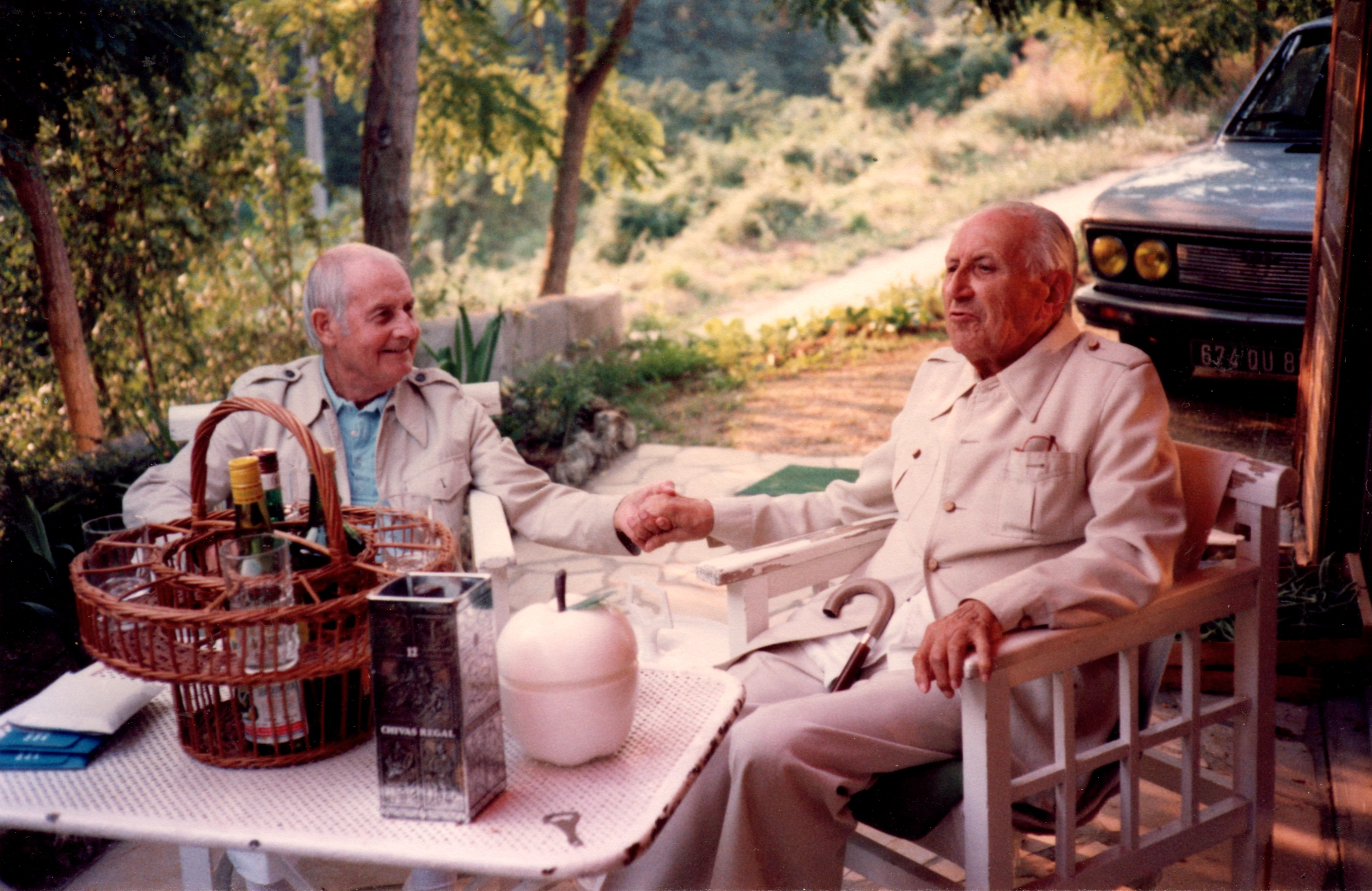 Vouillé (Vienne), Summer 1985.